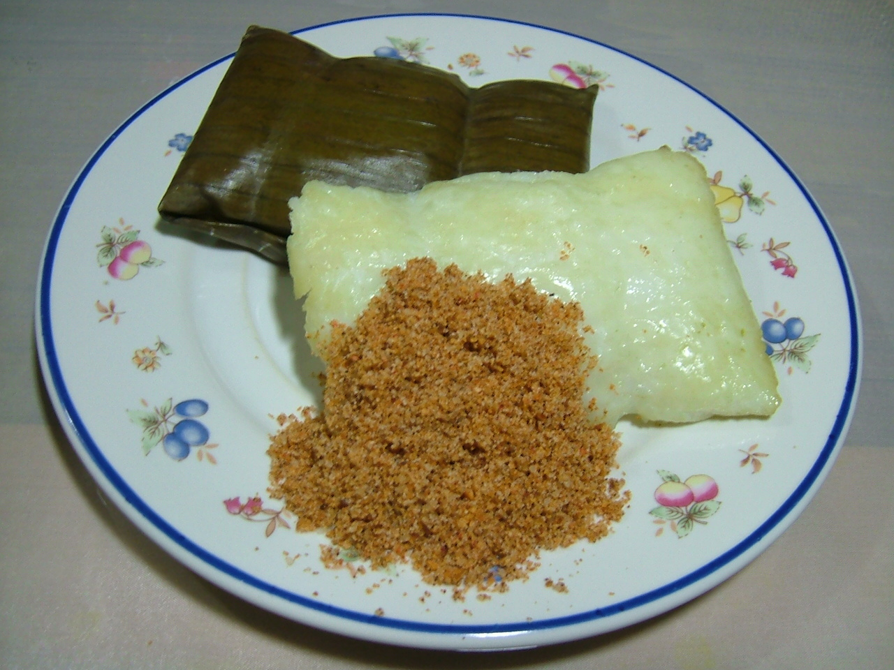 Buras, rice cooked in coconut milk, served with spicy coconut powder